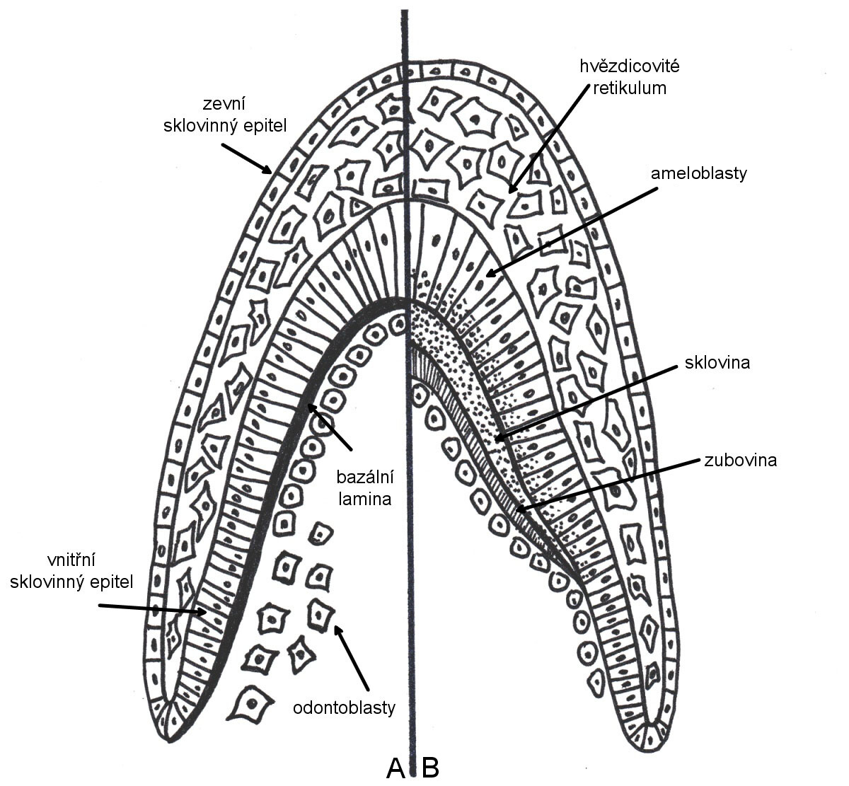 ameloblast, tooth Česky: ameloblast, zub